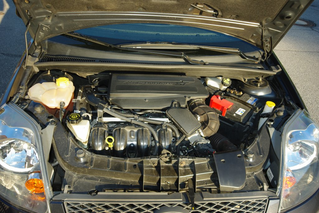 Duratec HE engine in a '06 Fiesta ST